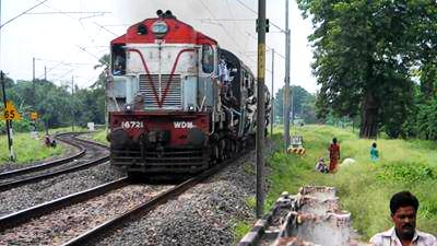 Tirhut Express being pulled by WDM 3A